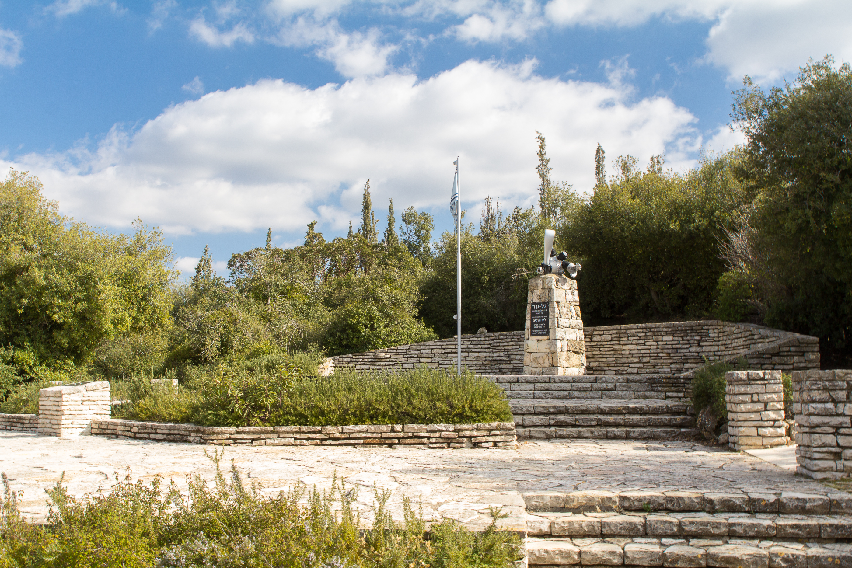 Israeli Air Force memorial site on Pilots Mountain